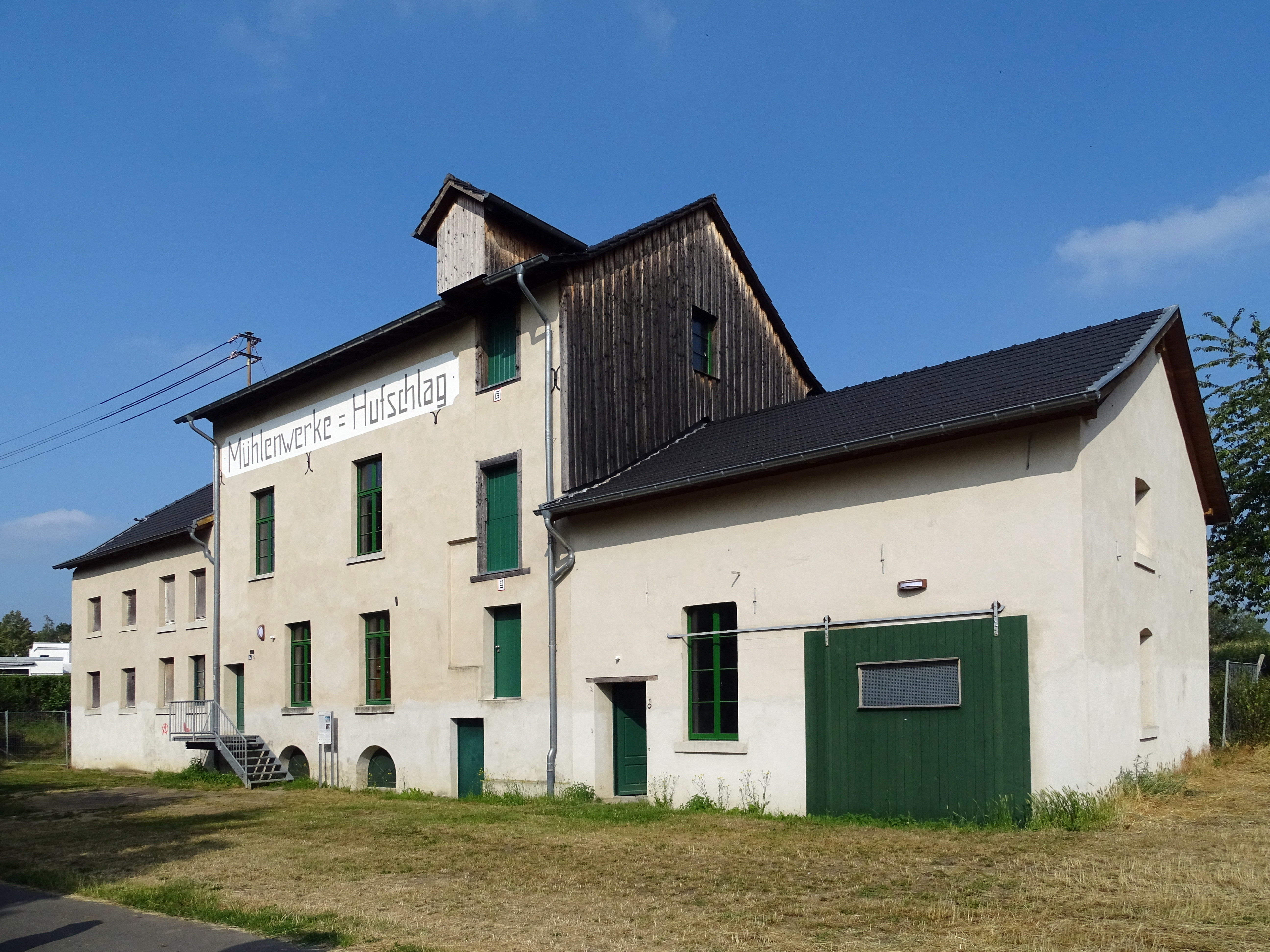 Former mill in Meckenheim (Rhineland), Obere Mühle 8a.